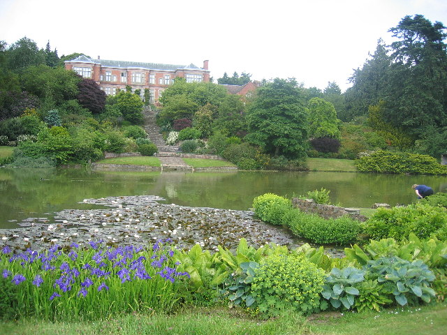 Hodnet Hall from the lake. Hodnet Hall is a beautiful garden in Shropshire in the village of Hodnet, with Black Swans and beautiful irises